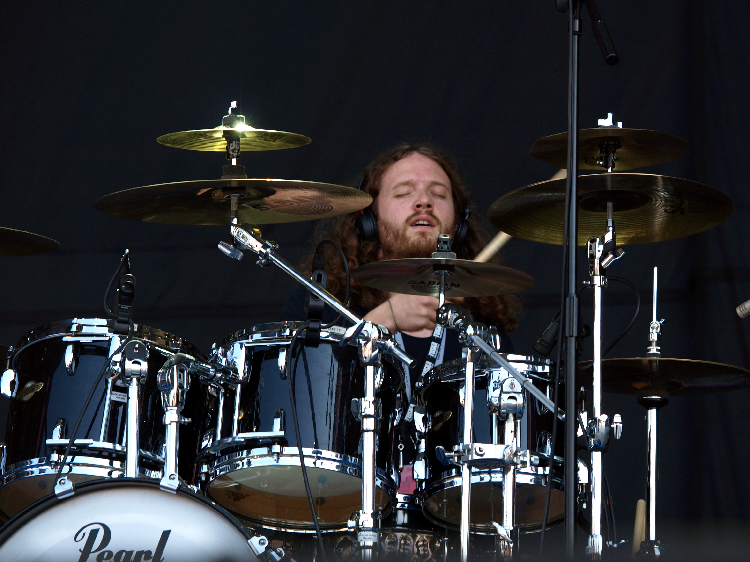 British band TesseractT live at Tuska Open Air 2013